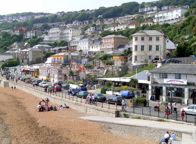 Ventnor. This photo was taken from the new pier at Ventnor looking inland